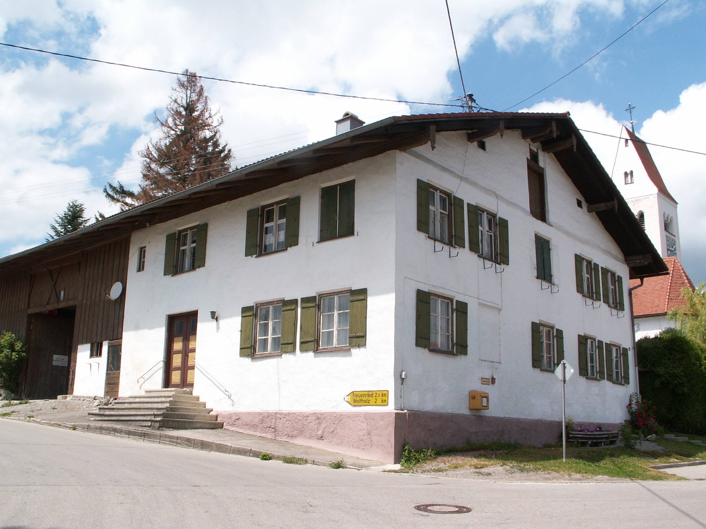 Ehem. Pfarrhof, Huttenwang 27, Aitrang